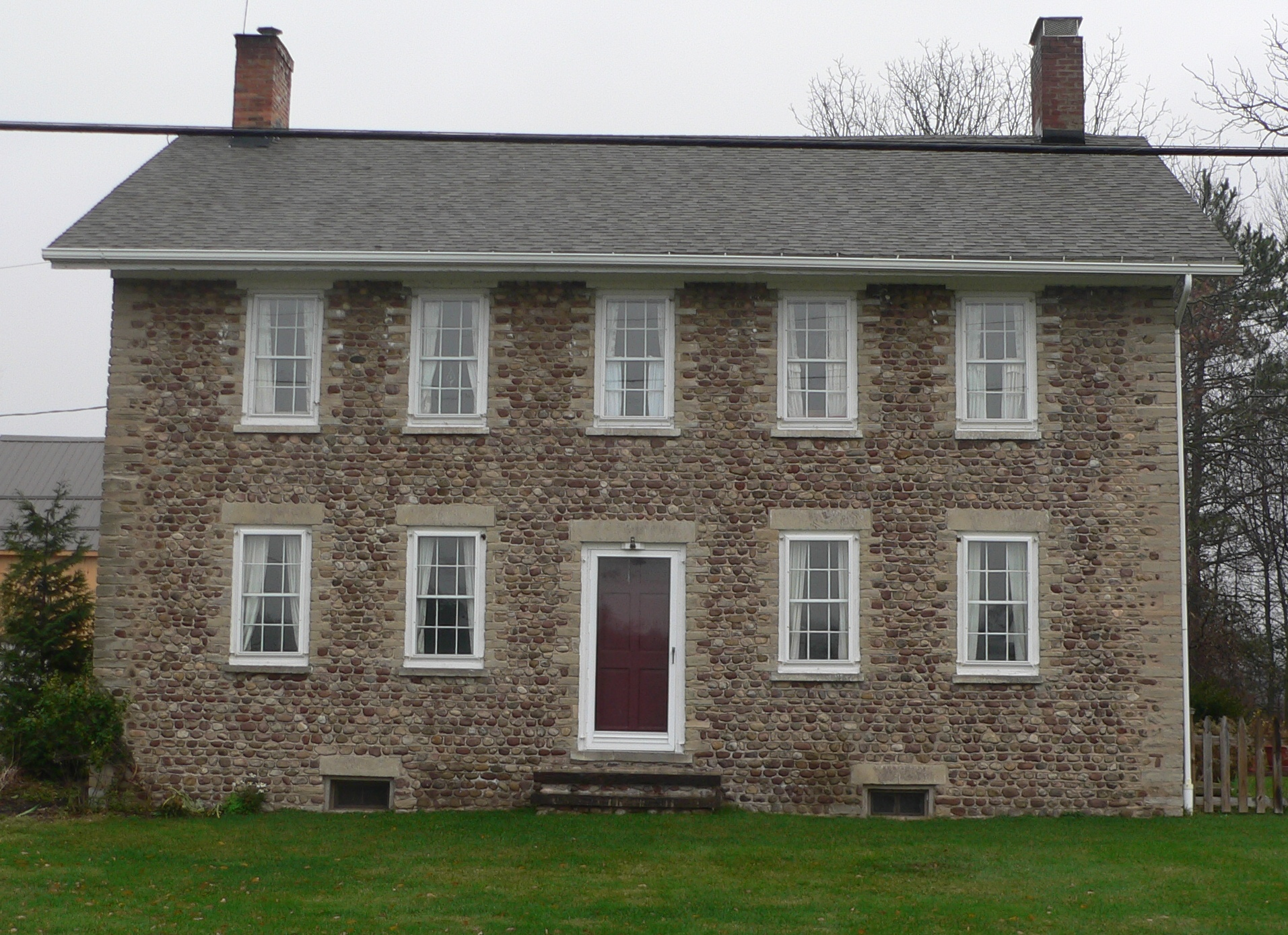 Cole Cobblestone Farmhouse, located at 1099 Mile Square Road in Mendon, New York.